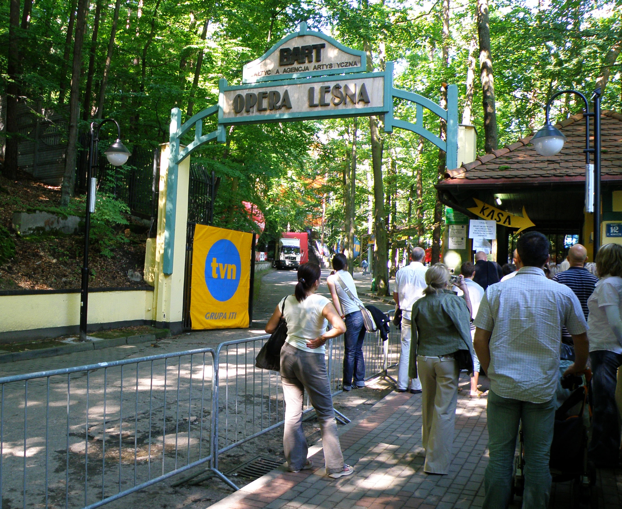 Poland, Sopot, Forest Opera